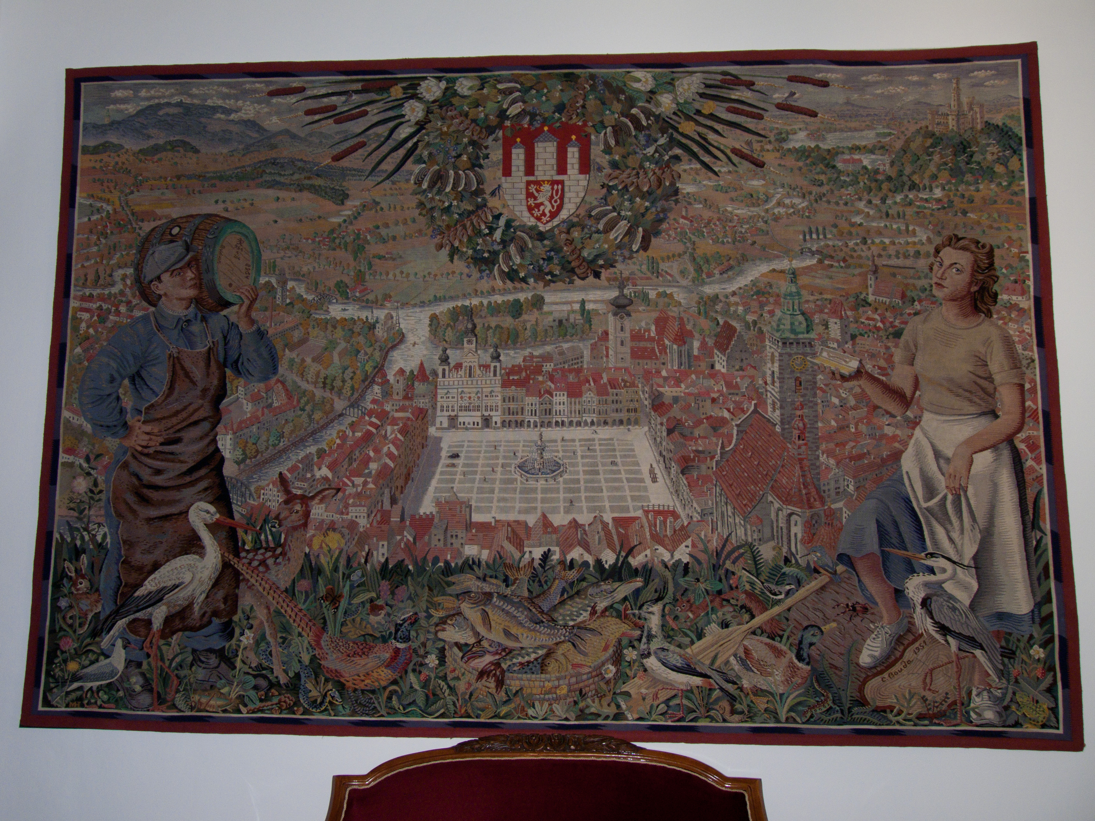 Tapestry in the town hall of České Budějovice, Czech Republic by Cyril Bouda from 1951, showing the town and its surroundings as well its two famous industries - brewing and pencil-making